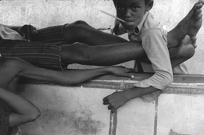 Jules Allen Photograph: Rhythmology Series